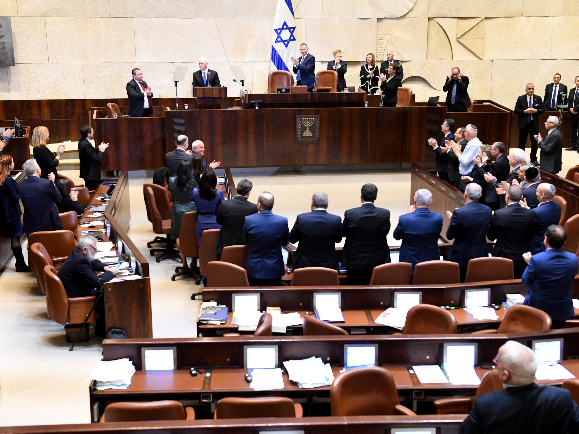 Vice President of the United States Mike Pence visits the Knesset and delivers remarks in front of a special parliamentary session, Jerusalem January 22, 2018. Vice President of the United States Mike Pence visits the Knesset and delivers remarks in front of a special parliamentary session, Jerusalem January 22, 2018.